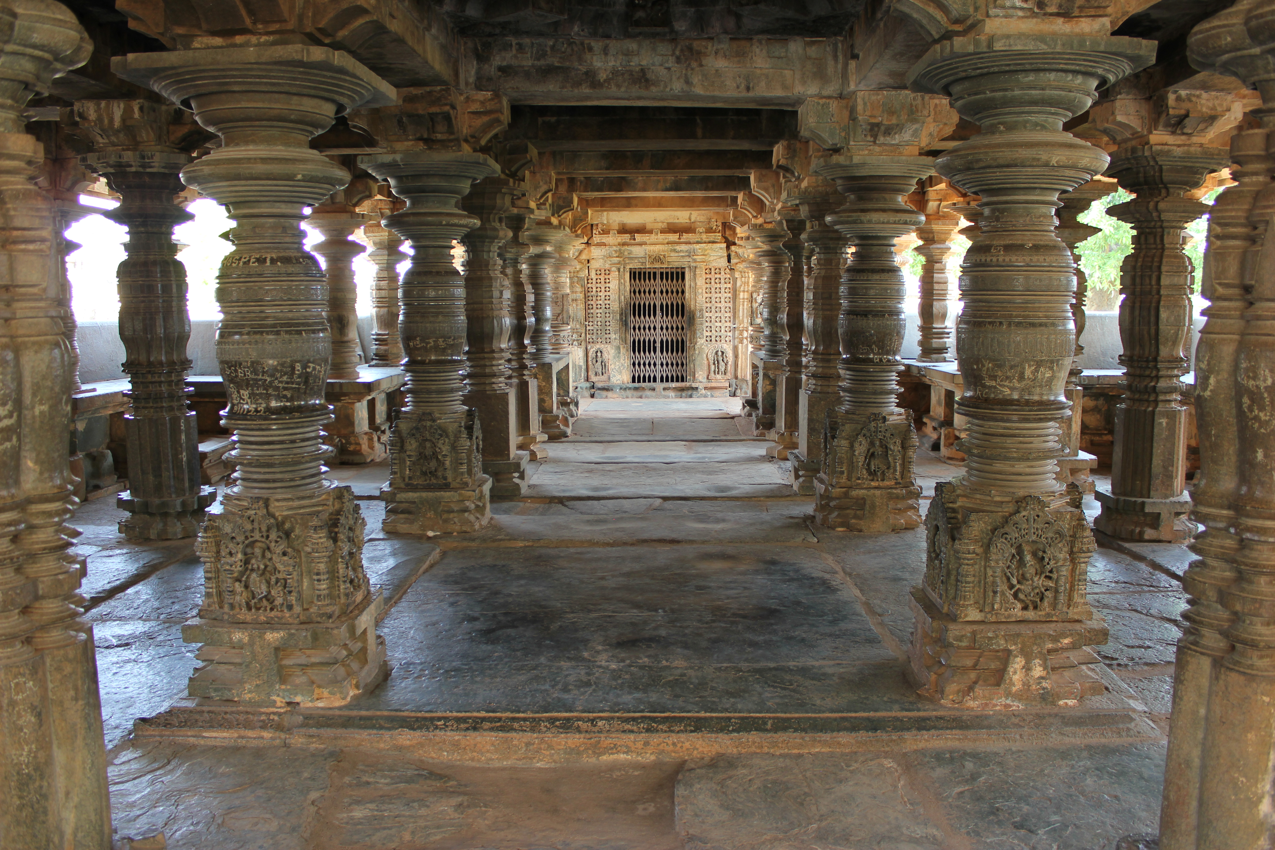 This photograph was taken by me at the Kalleshvara temple (also spelt Kalleshwara or Kallesvara) at Bagali (called Balgali in ancient times), Davangere district, Karnataka state, India. The construction of the temple shrine and closed mantapa was completed in the late Rashtrakuta empire period (mid-10th century). The ornate open mantapa was built by Western (Kalyani) Chalukya King Tailapa II in 987 A.D.